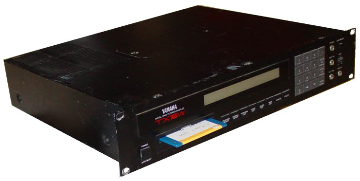 I took this photo.